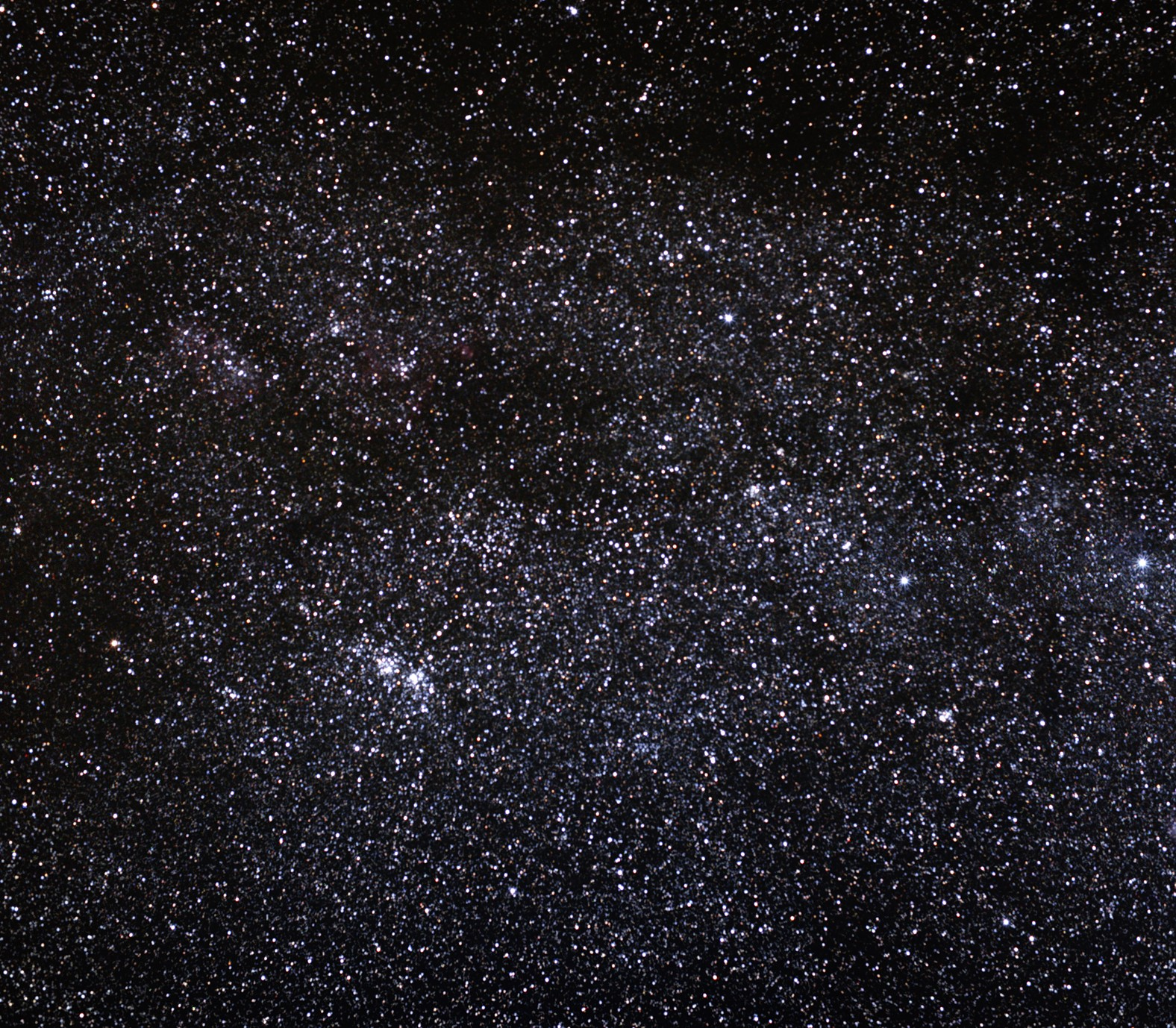 The famous Double Cluster in the constellation of Perseus consists of the star clusters h and chi Persei, which lie some 7100 and 7400 light-years away from Earth, respectively, and appear very close to each other on the sky. These open clusters formed relatively recently in astronomical terms and move together through space, approaching us at a speed of roughly 80 000 kilometres per hour. They are both part of the so-called Perseus OB1 association, an assembly of extremely massive stars. The western component of the pair, h Persei, entry 689 in the New General Catalogue (NGC 689), is about 5.6 million years old, while Chi Persei (NGC 884) is closer to 3.6 million years old. Easy to spot in the northern winter sky between the constellations of Perseus and Cassiopeia, the Double Cluster is a favourite of amateur astronomers. The clusters are dominated by bright blue stars and, speckled with a few fine orange stars, make a spectacular sight in the night sky, especially through binoculars.